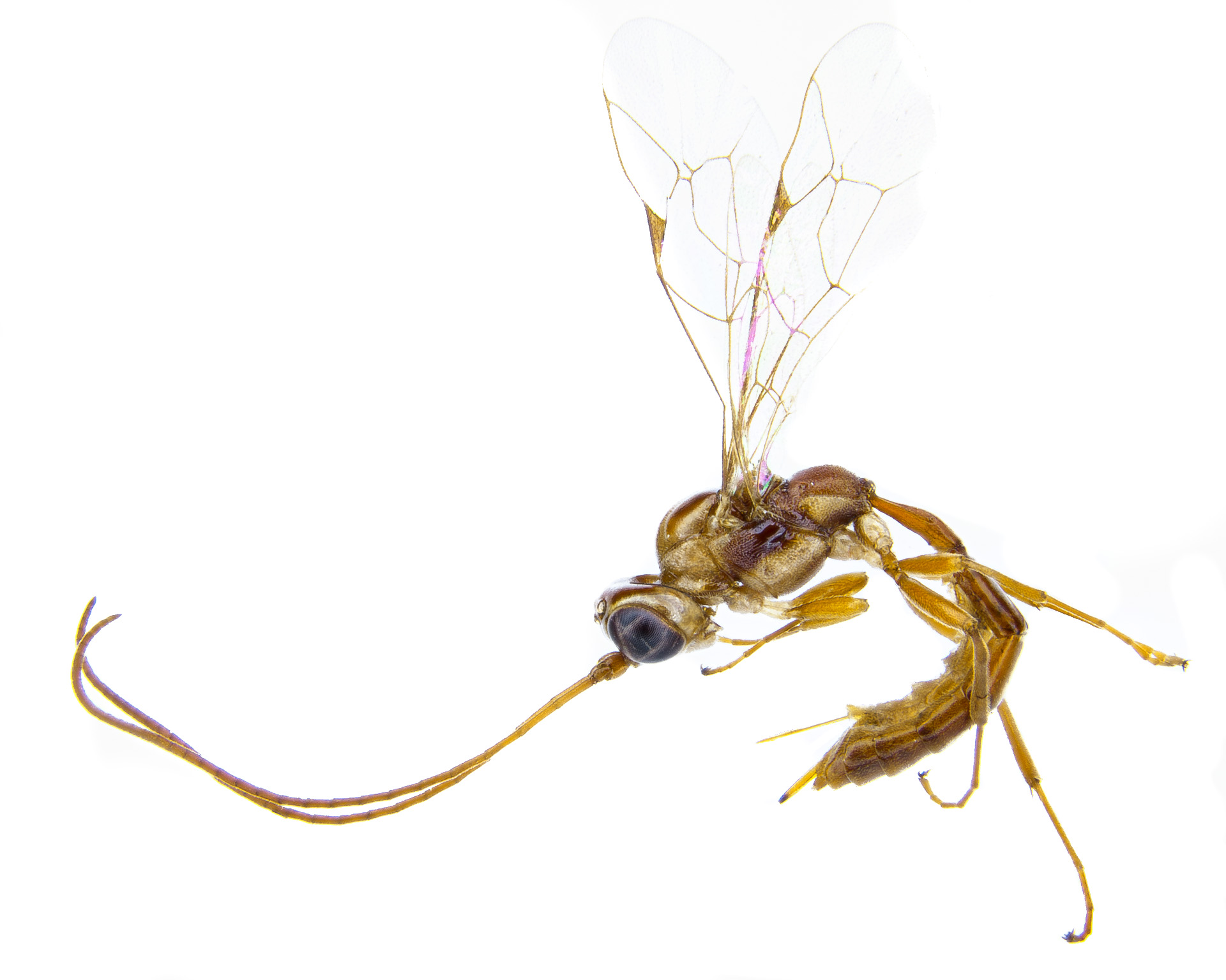 Taken by Tom Saunders during masters research supervised by Darren Ward, based at Landcare Research, Auckland, New Zealand.